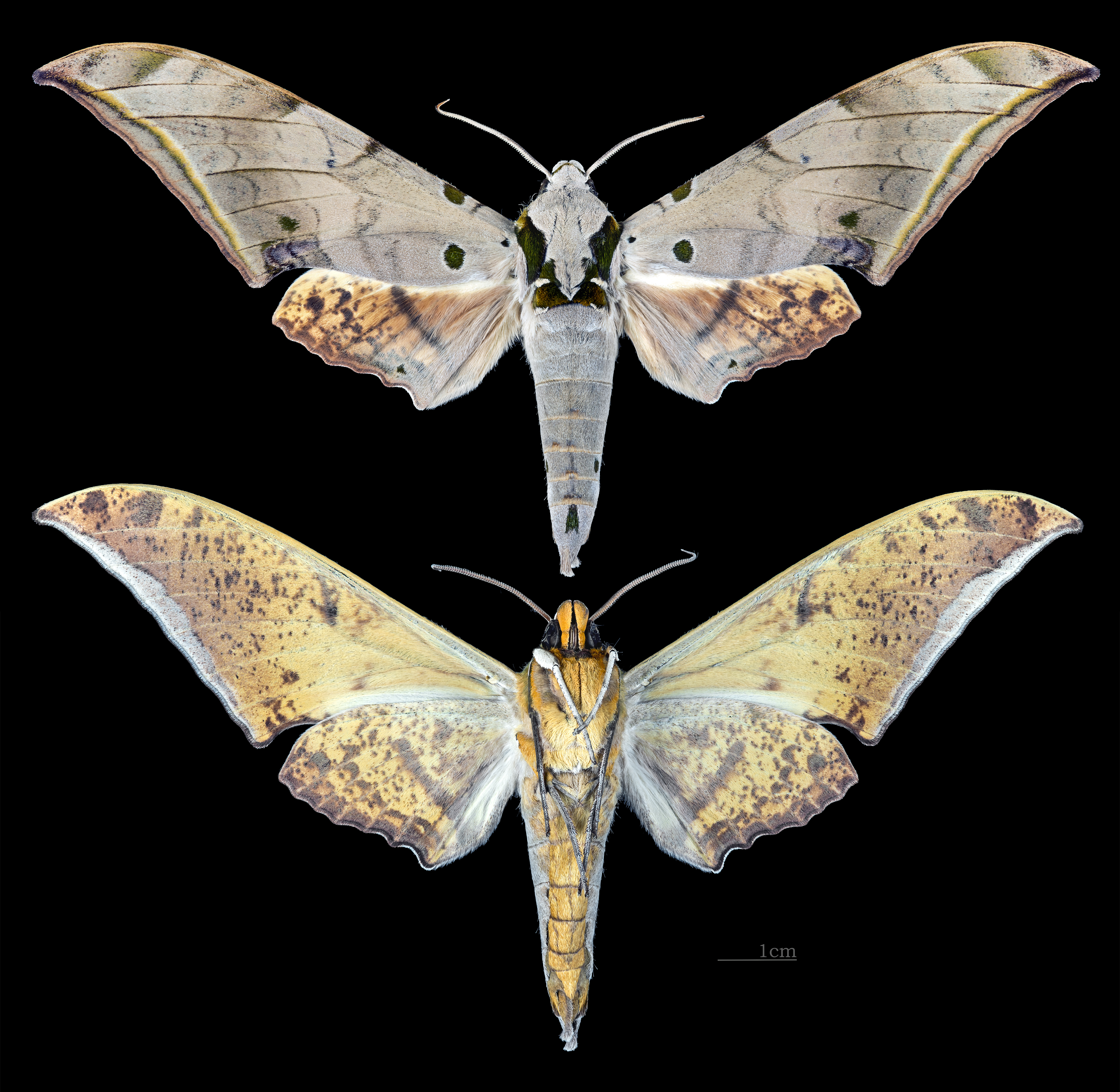 Ambulyx sericeipennis - Two views of same specimen Collection of the Mathematician Laurent Schwartz